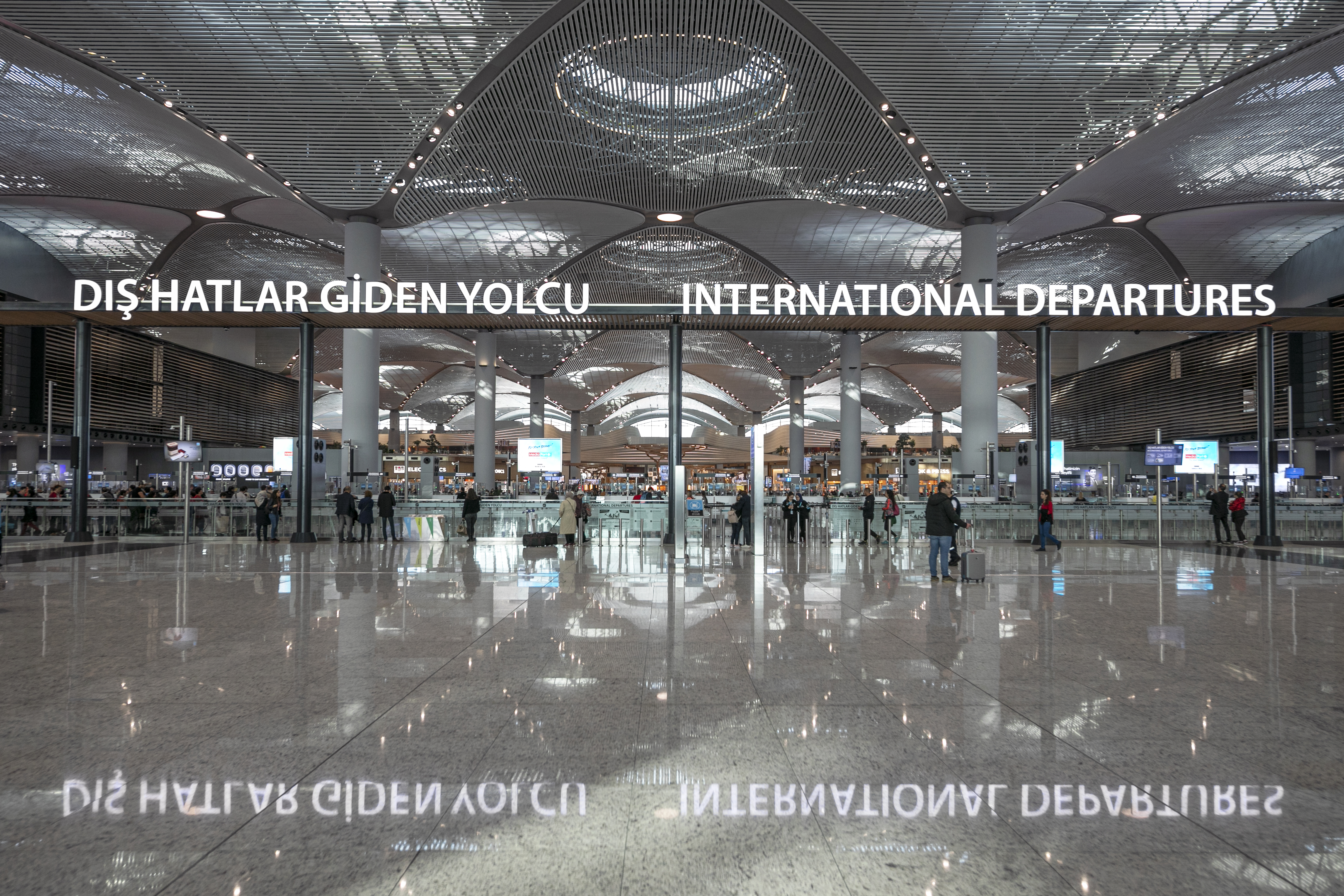 İstanbul Flughafen